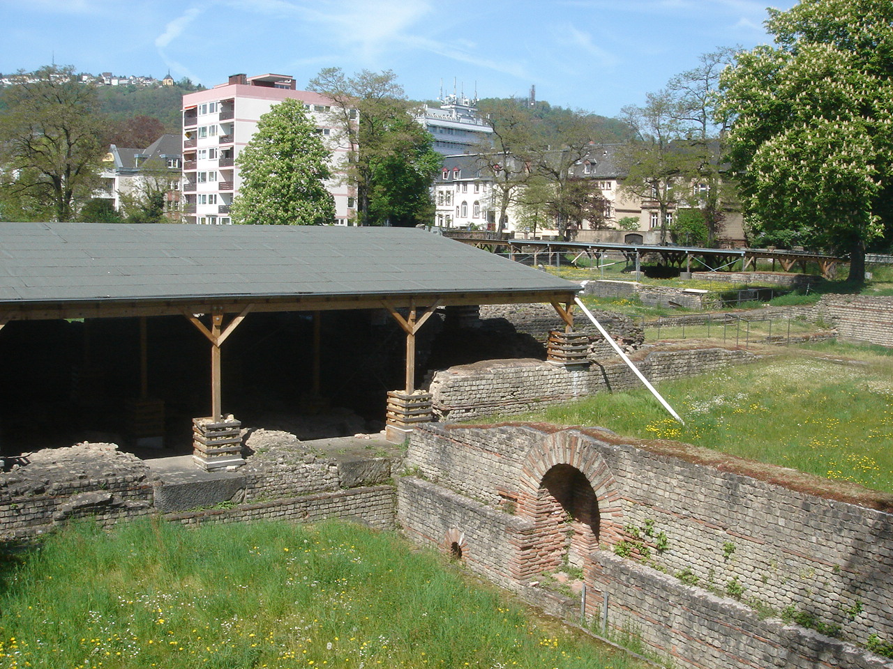 Roman Barbara Baths in Trier